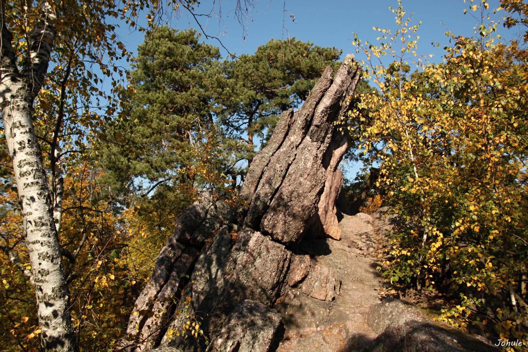 Rock formation in natural reserve Babí lom near Lelekovice village in Brno-venkov District, Czech Republic